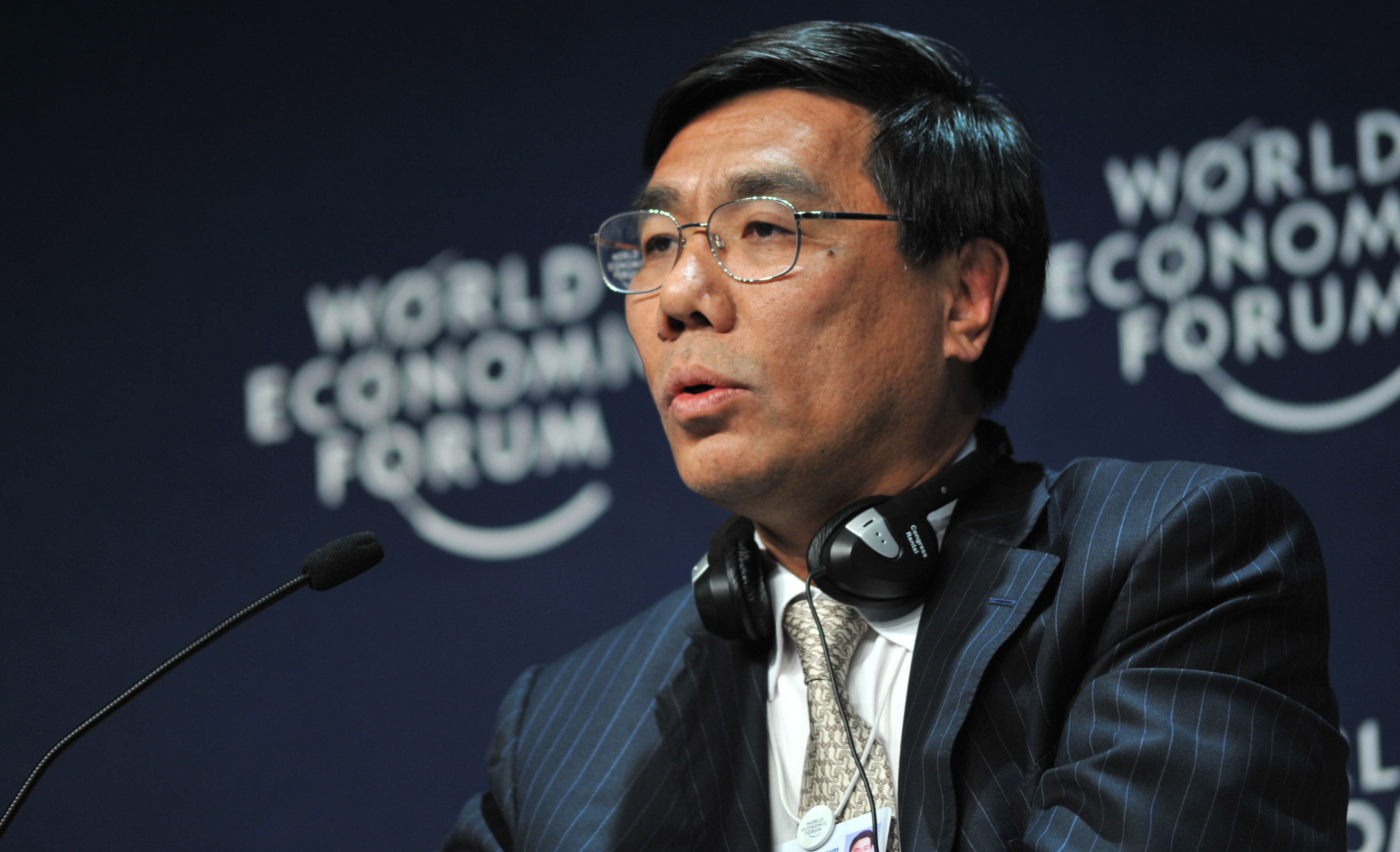 CAPE TOWN/SOUTH AFRICA, 10JUN2009 - Jiang Jianqing, Chairman of the Board, Industrial and Commercial Bank of China, People's Republic of China; Co-Chair for the World Economic Forum on Africa, at the Opening Plenary on Africa and the New Global Economy held During the World Economic Forum on Africa 2009 in Cape Town, South Africa, June 10, 2009